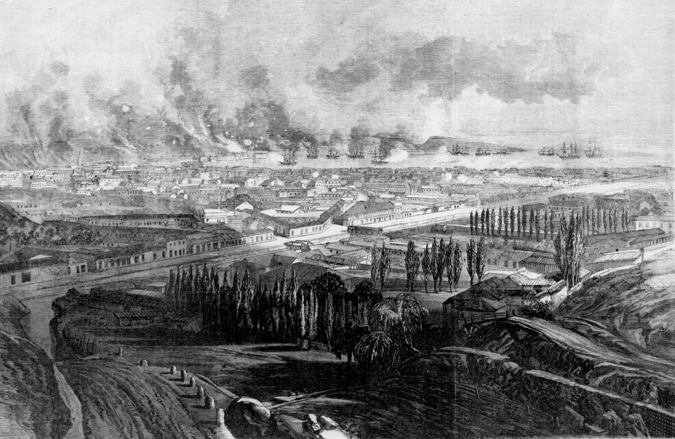 Original print depicting the Bombardment of Valparaiso in 1866 by the Spanish fleet